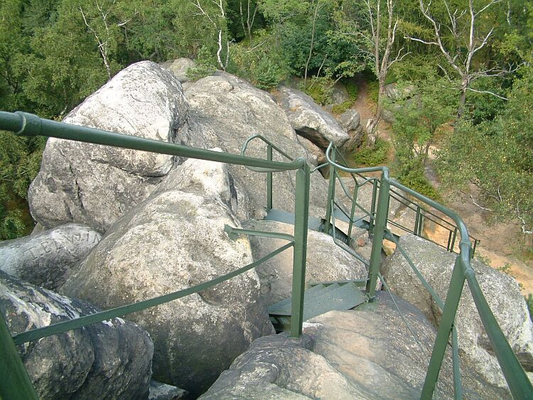 Popova skála, Lusatian Mountains, Czech Republic